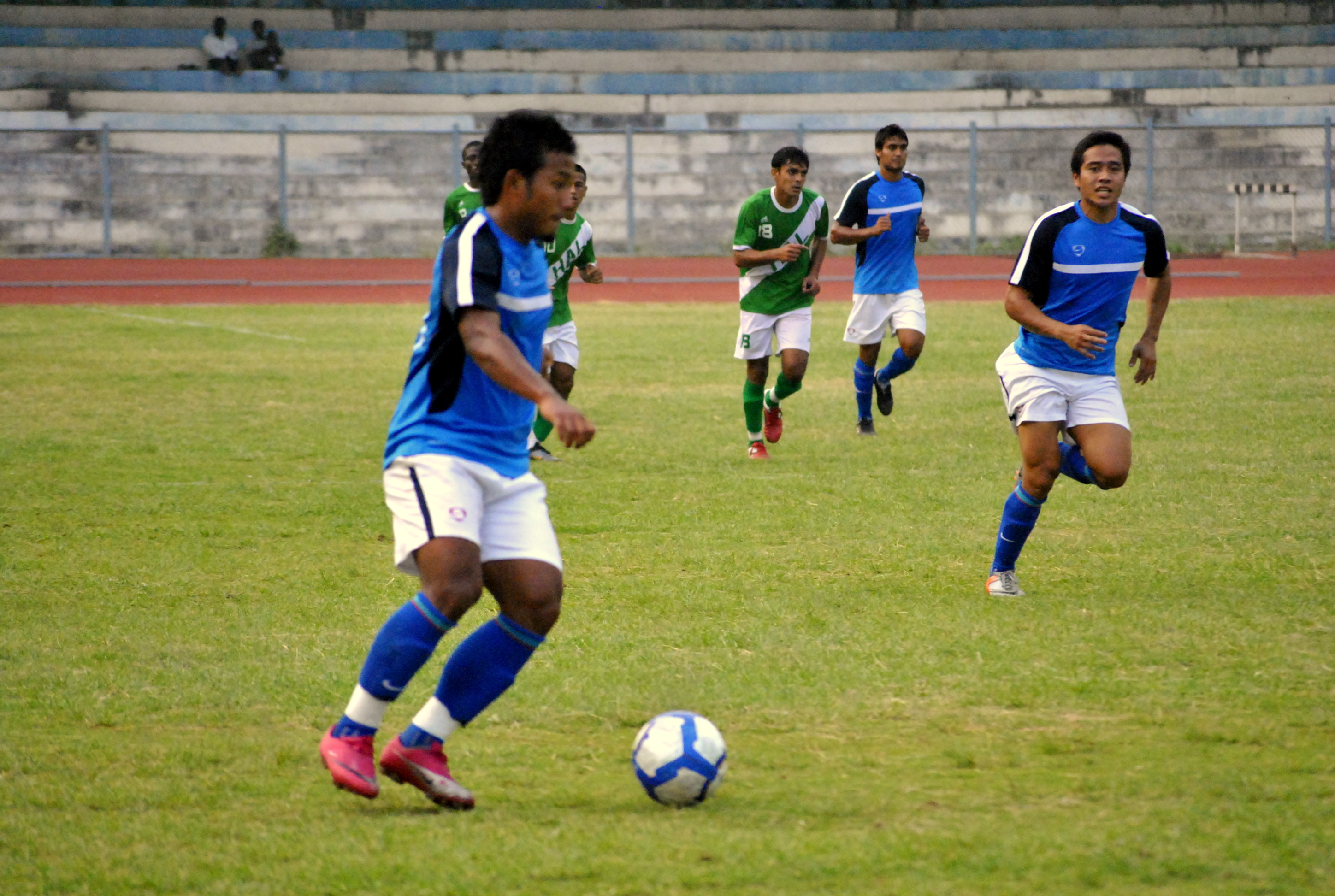 Another trademark Jeje run, I-League 2011-12, Vs HAL (away)